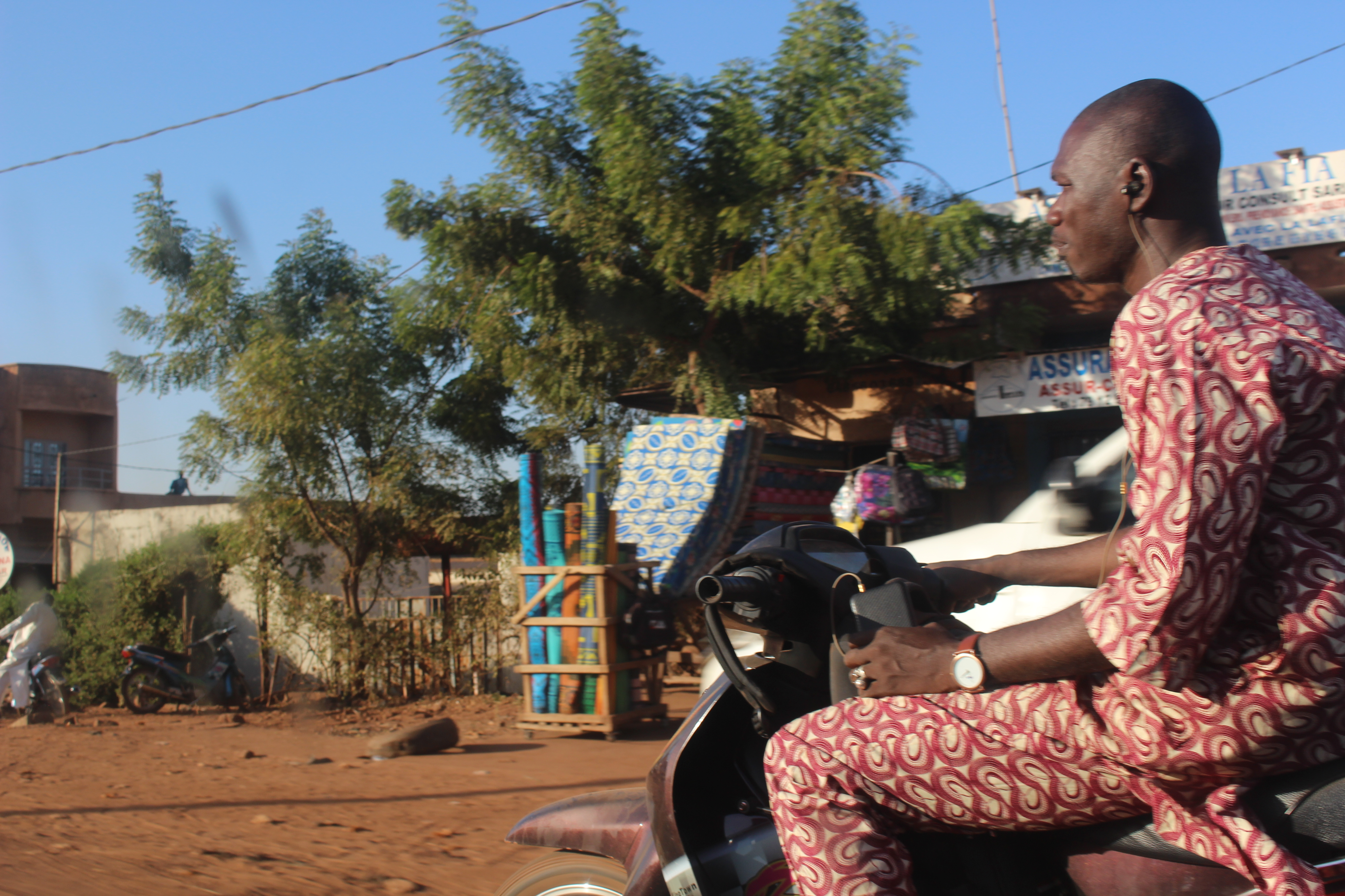 This is an image with the theme "Africa on the Move or Transport" from: Mali